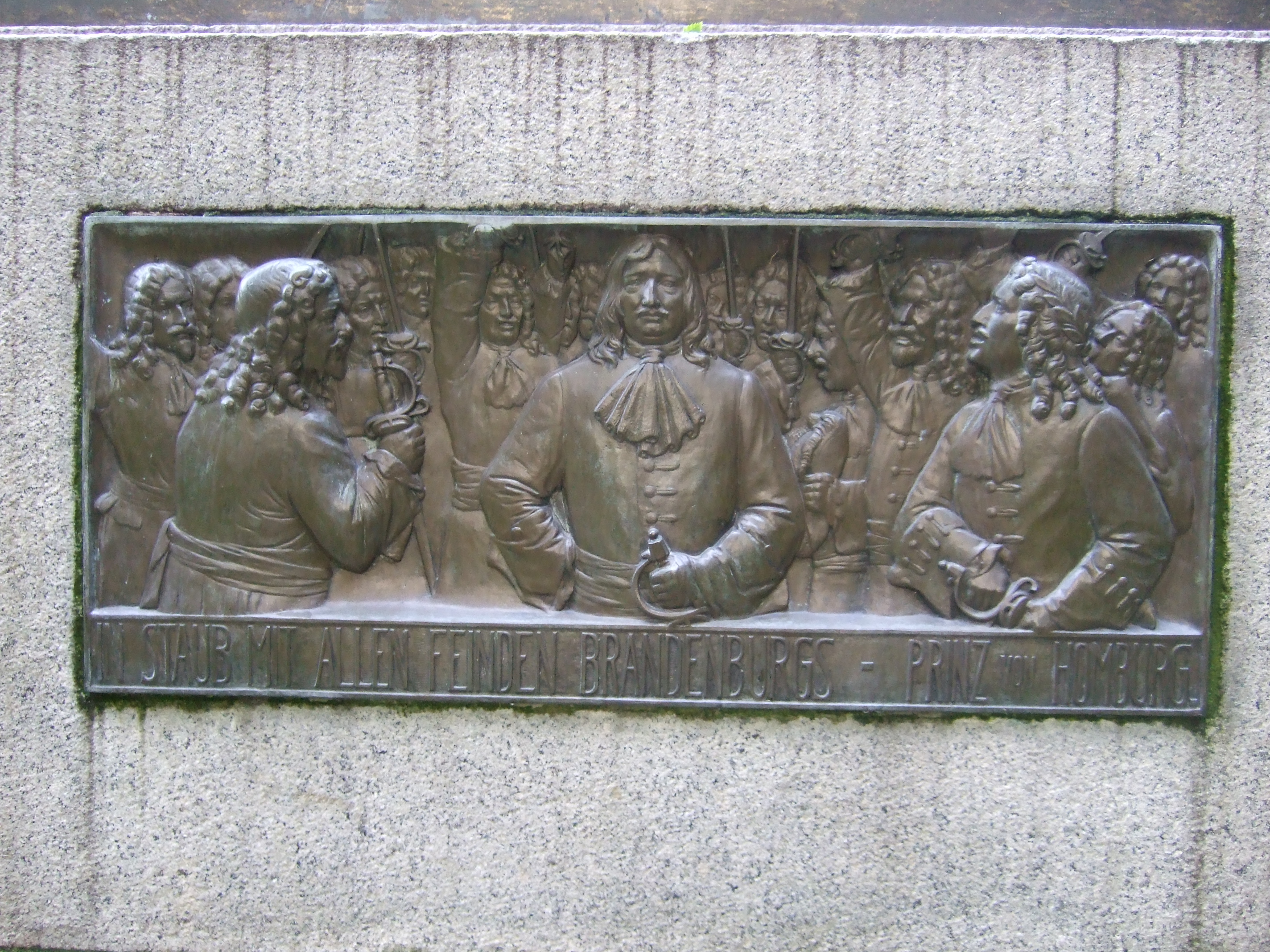 Heinrich von Kleist Memorial in Frankfurt (Oder), Germany. Situated in the Park at the St. Gertraud Church. Made by Gottlieb Elster in 1910.